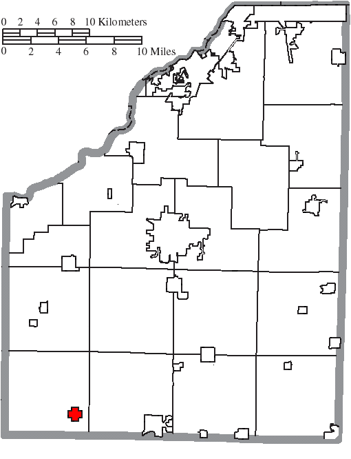 Map of the municipal and township boundaries of Wood County, Ohio, United States, as of the 2000 census, with the location of the village of Hoytville highlighted. Township borders are shown only in unincorporated areas in order to differentiate incorporated and unincorporated areas more clearly.